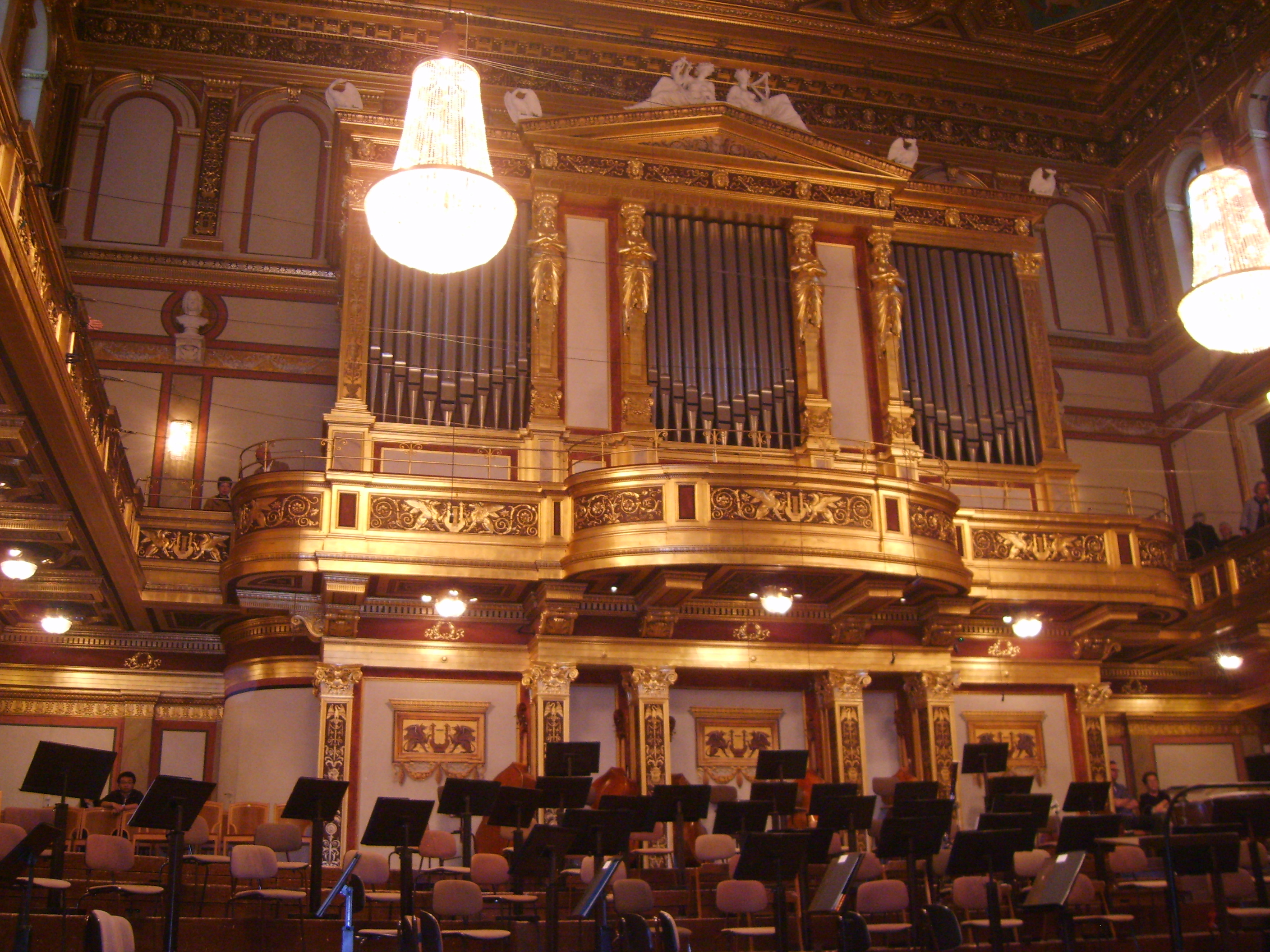 Musikvereinssaal - Orgelprospekt